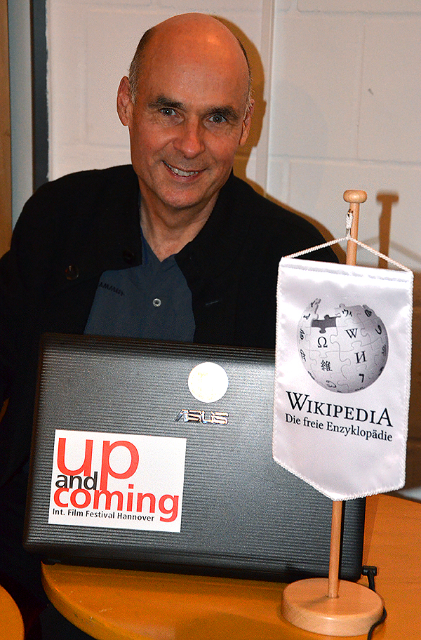 Festival director Burkhard Inhülsen, here to see behind an internet computer placed by Wikimedia Foundation on the „13th International up-and-coming Film Festival in Hannover“ ...